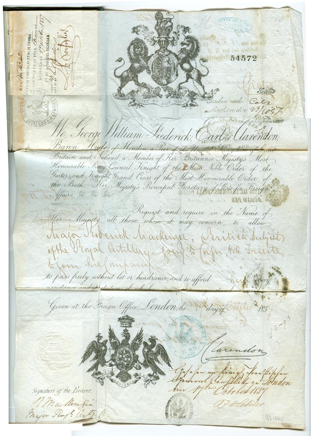 Military passport signed by George Villiers, 4th Earl of Clarendon. For Major Roderick Roderick MacKenzie, Royal Artillery.